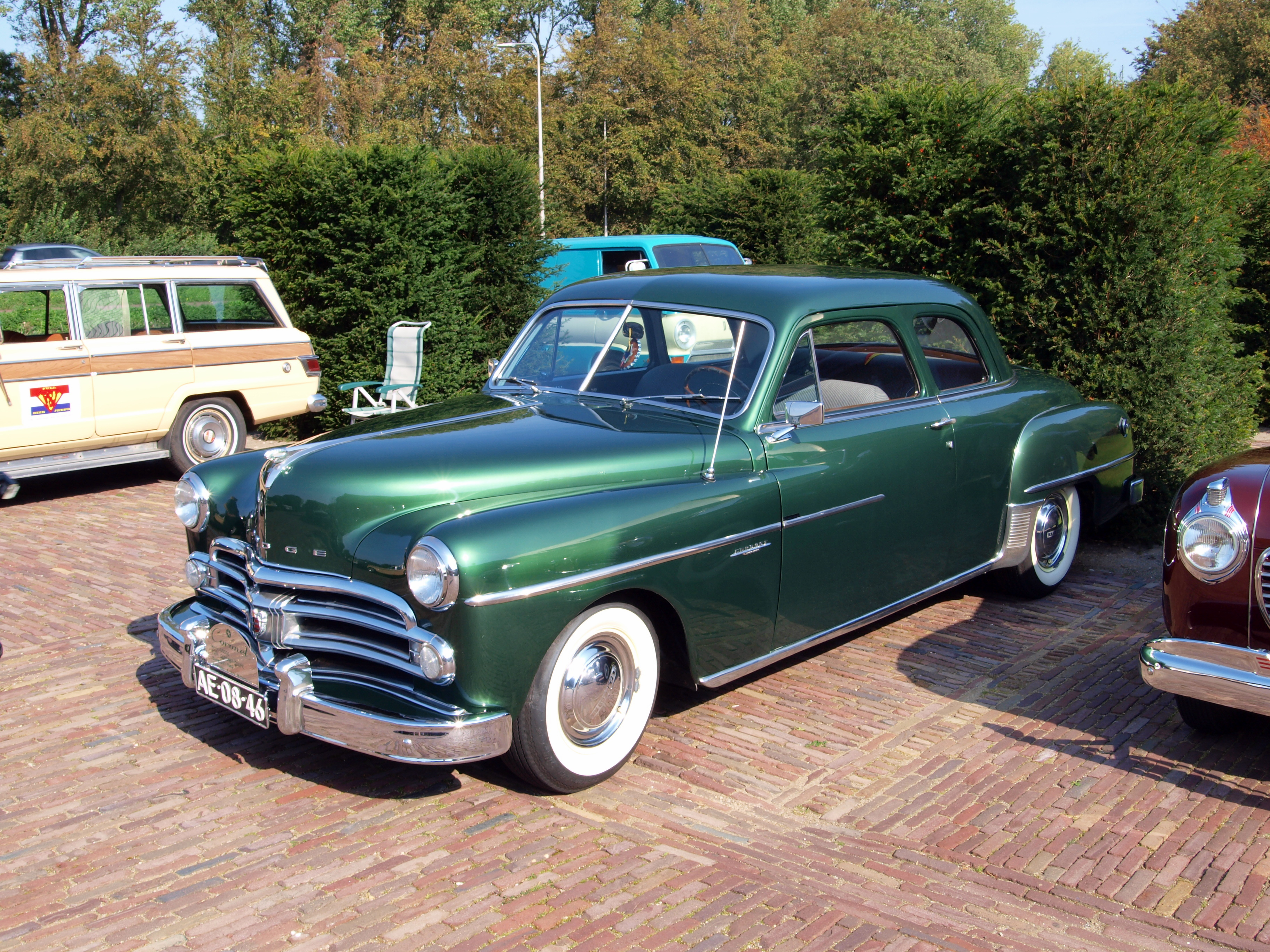 Photographed at the premmesis of the Louwman museum, The Hague, The Netherlands. OLYMPUS DIGITAL CAMERA